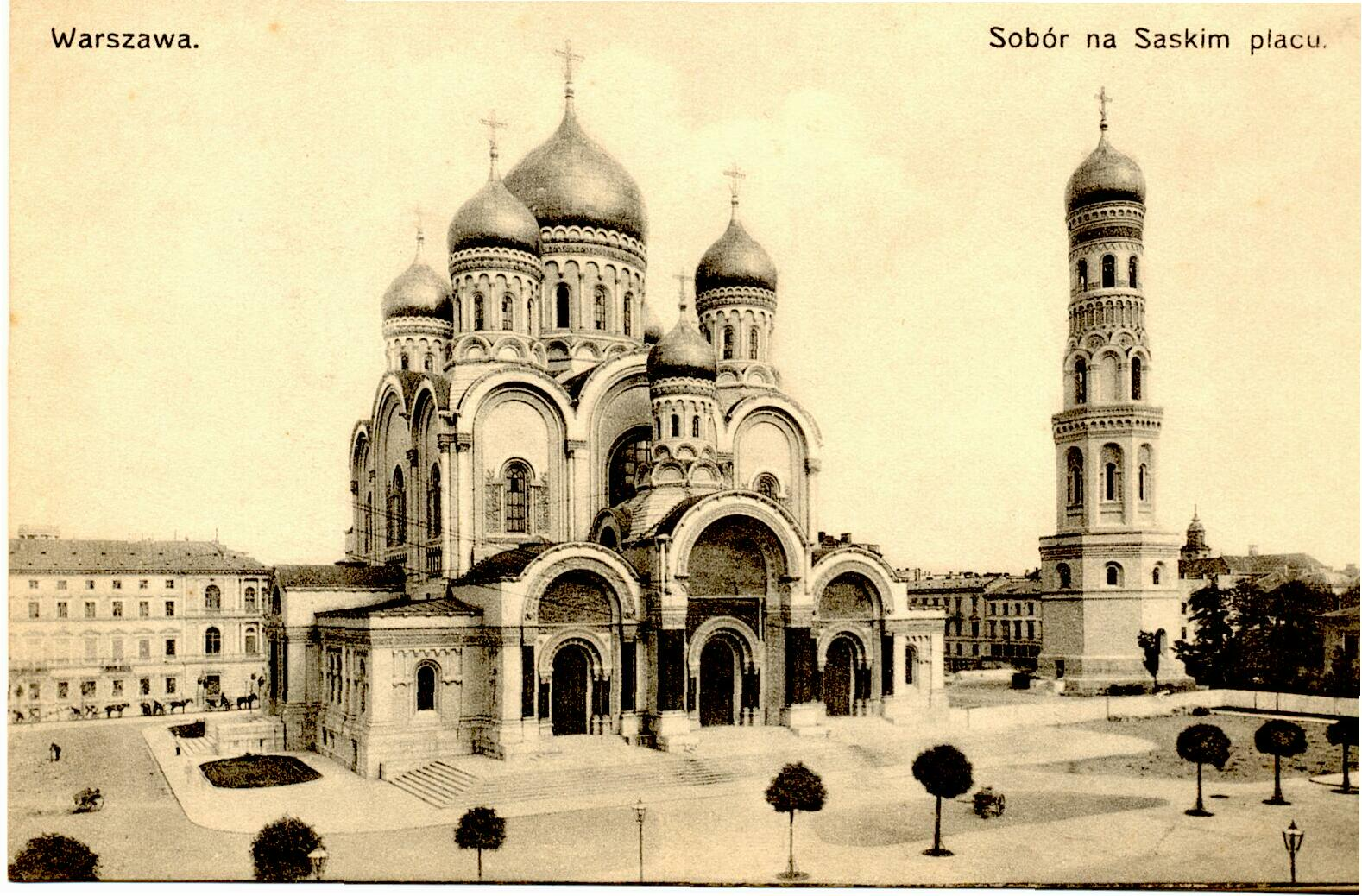 Warsaw (Poland), Alexander Nevsky Cathedral